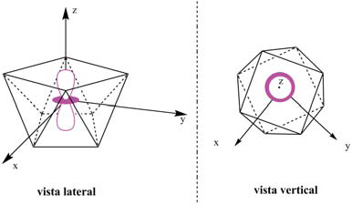 Complex, square antiprismatic, schematics